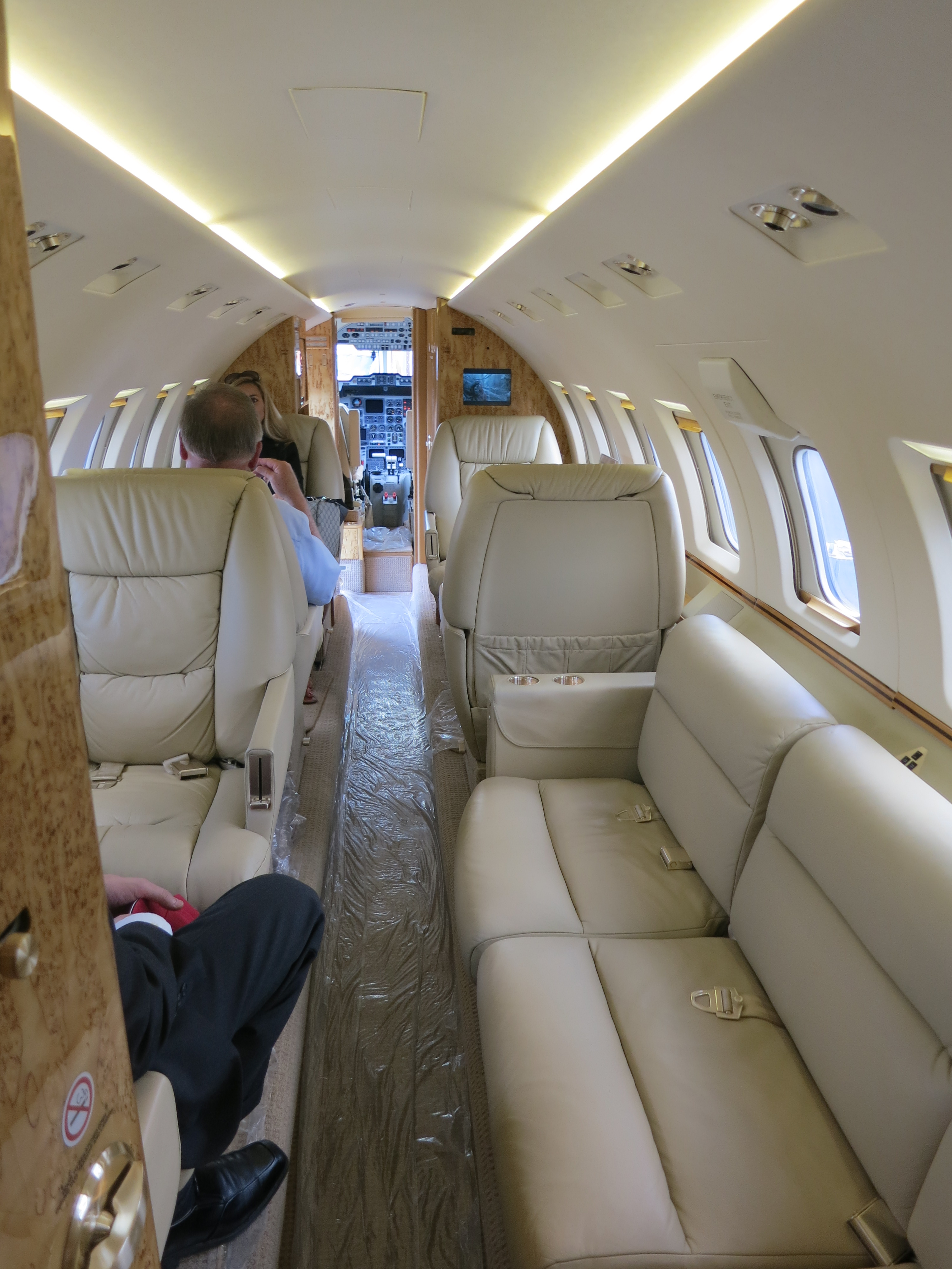 Interior of Hawker 1000 cabin with passengers